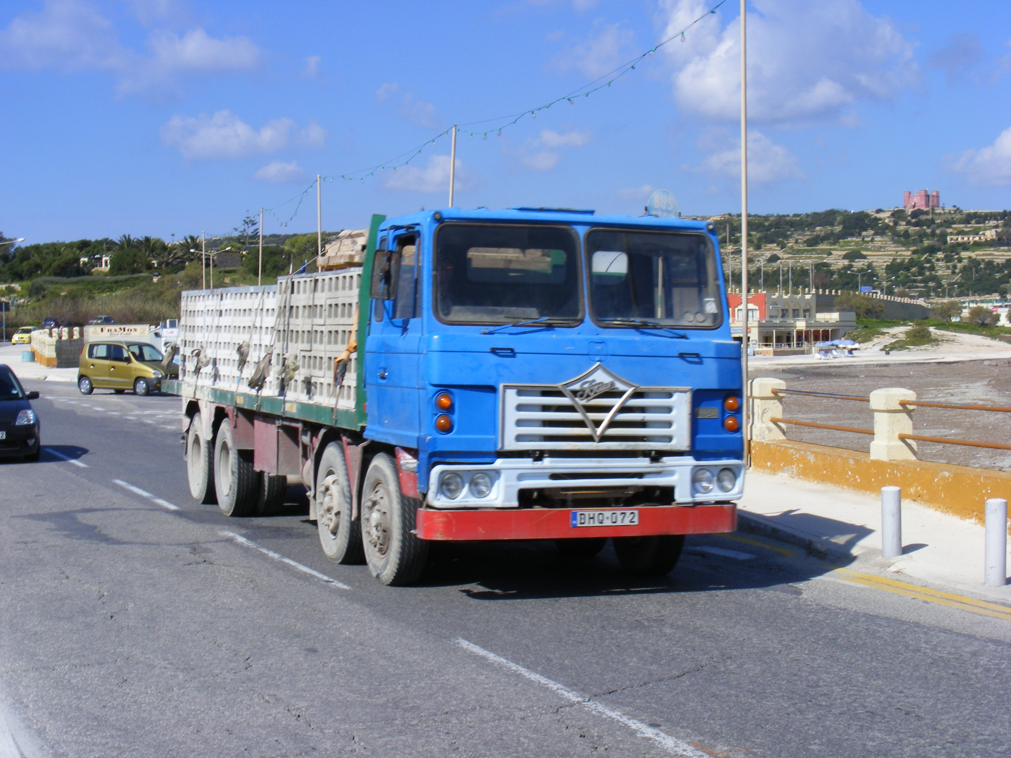 A favourite with circus and fairground owners in the UK, but hard at work in Malta carrying concrete blocks up and down some fairly steep gradients. This one seems to have come from the Gozo ferry.